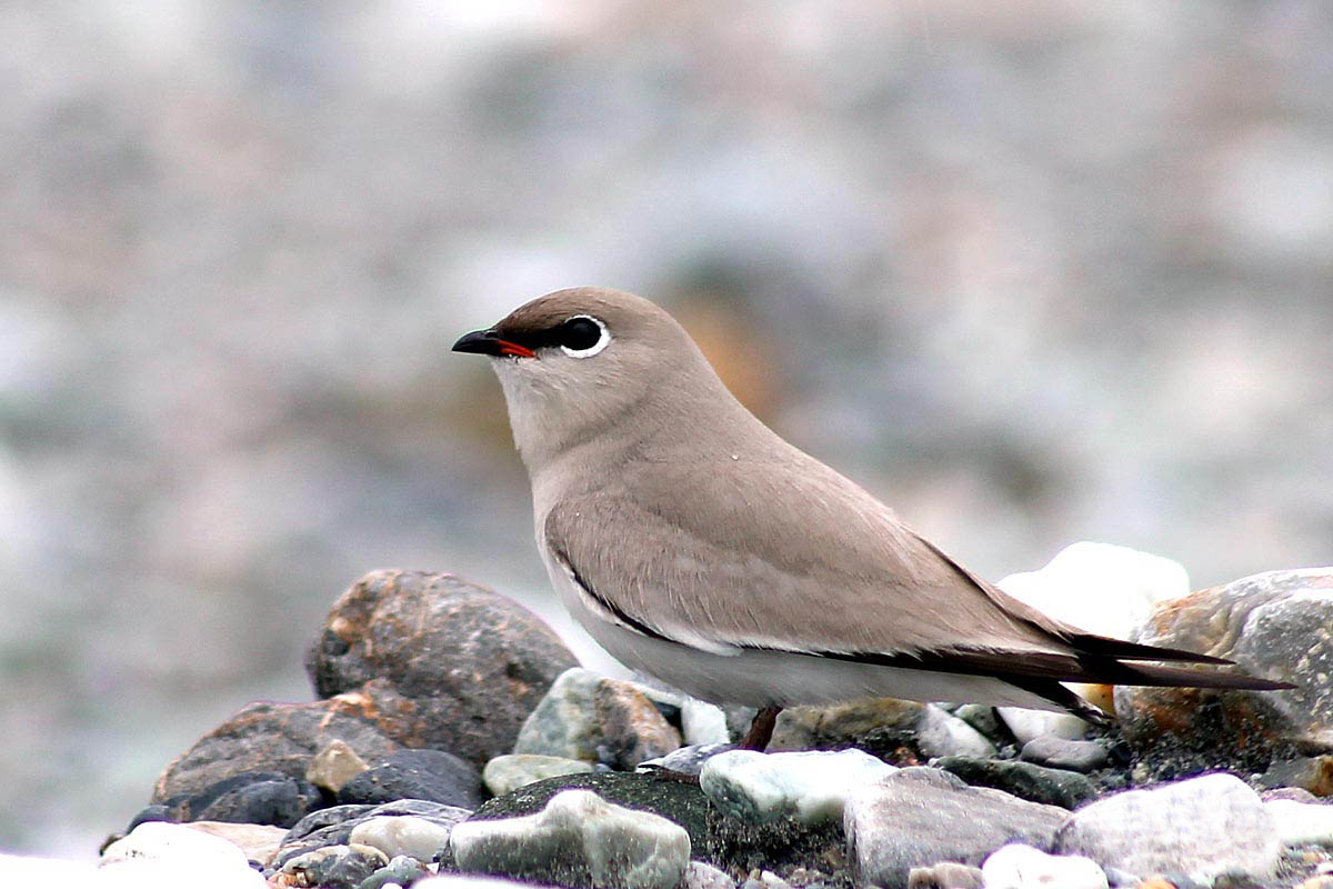 Little Pratincole Glareola lactea